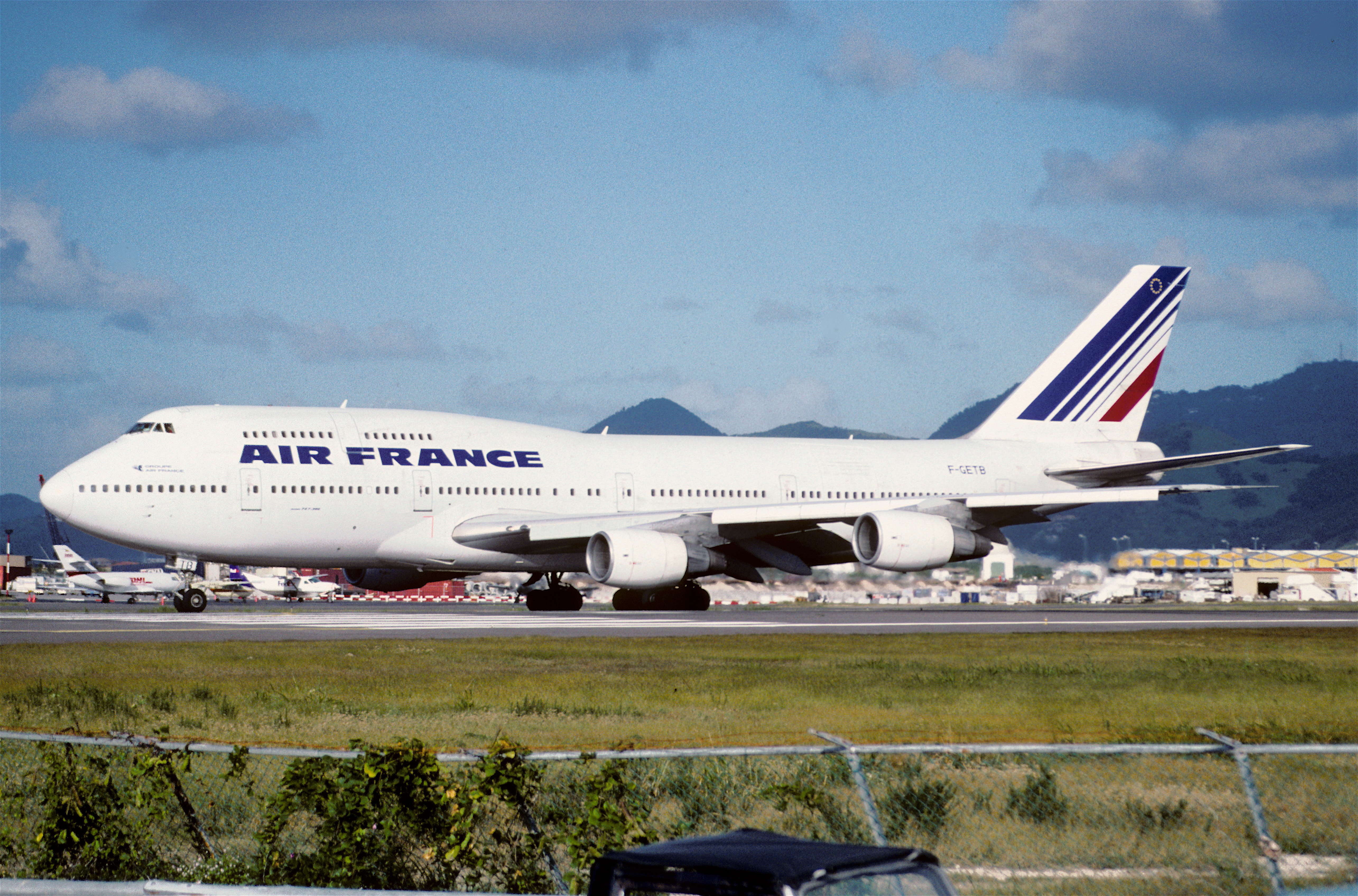 48az - Air France Boeing 747-300; F-GETB@SXM;03.02.1999